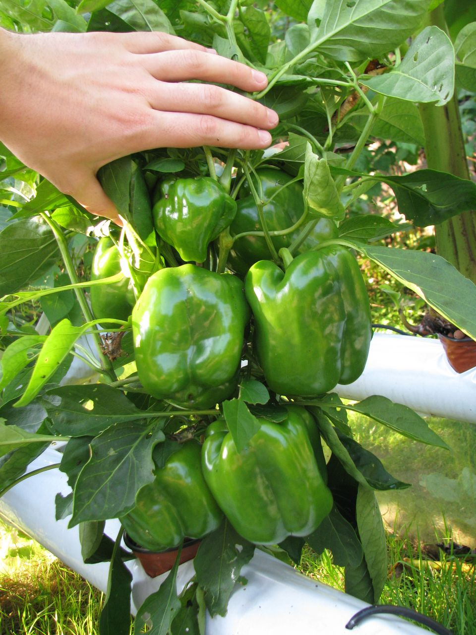 Hydroponics system